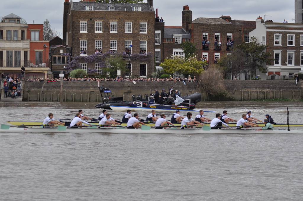 The Boat Race 2012 between Oxford and Cambridge Universities on the Thames near Hammersmith Bridge in London